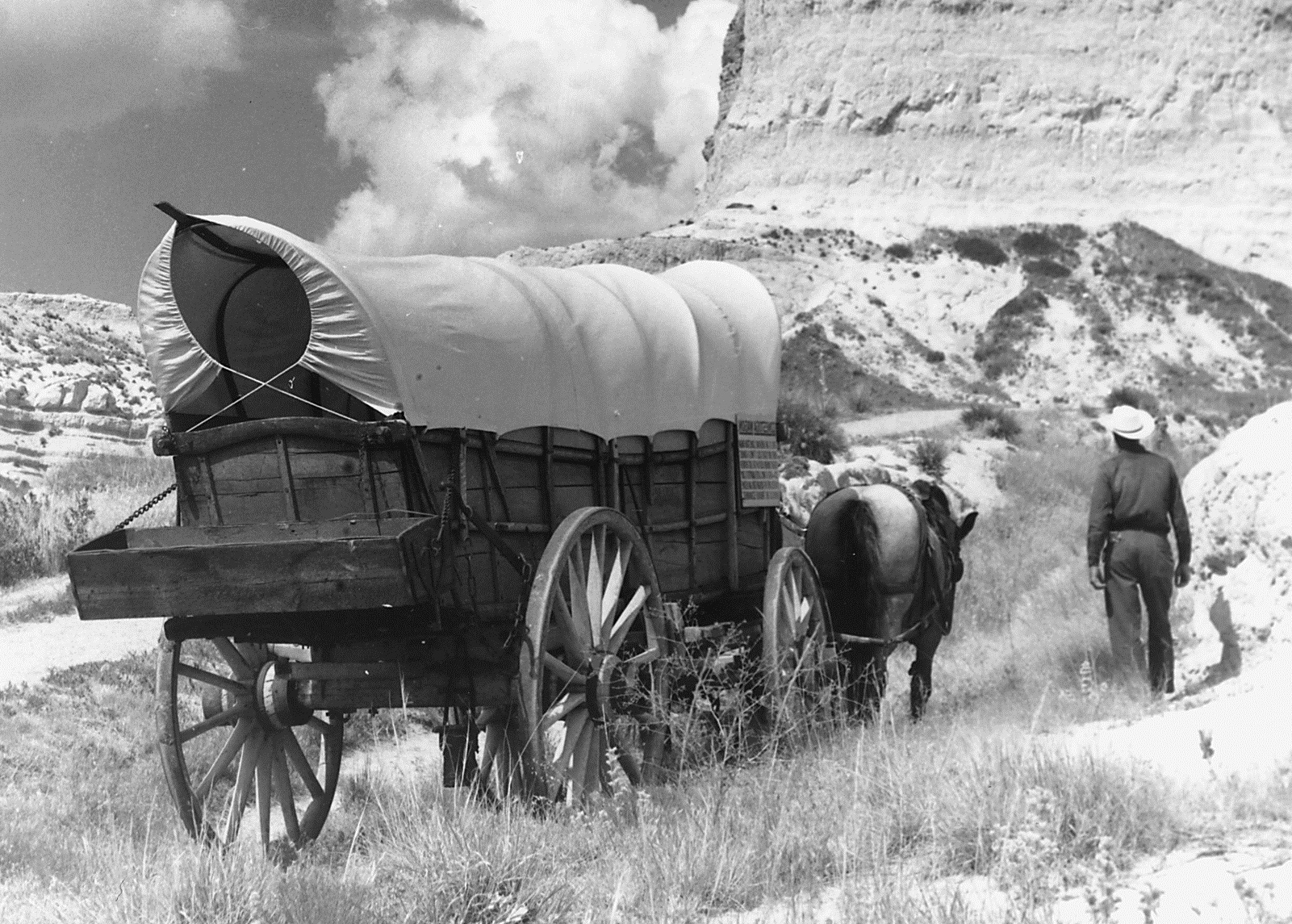 Conestoga wagon on Oregon Trail; 1961; recreation